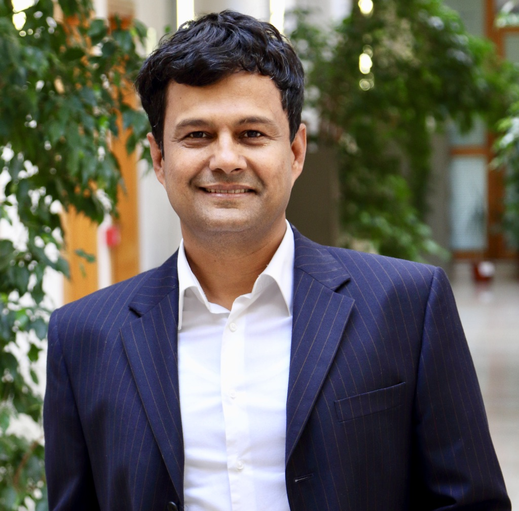 Atish Dabholkar